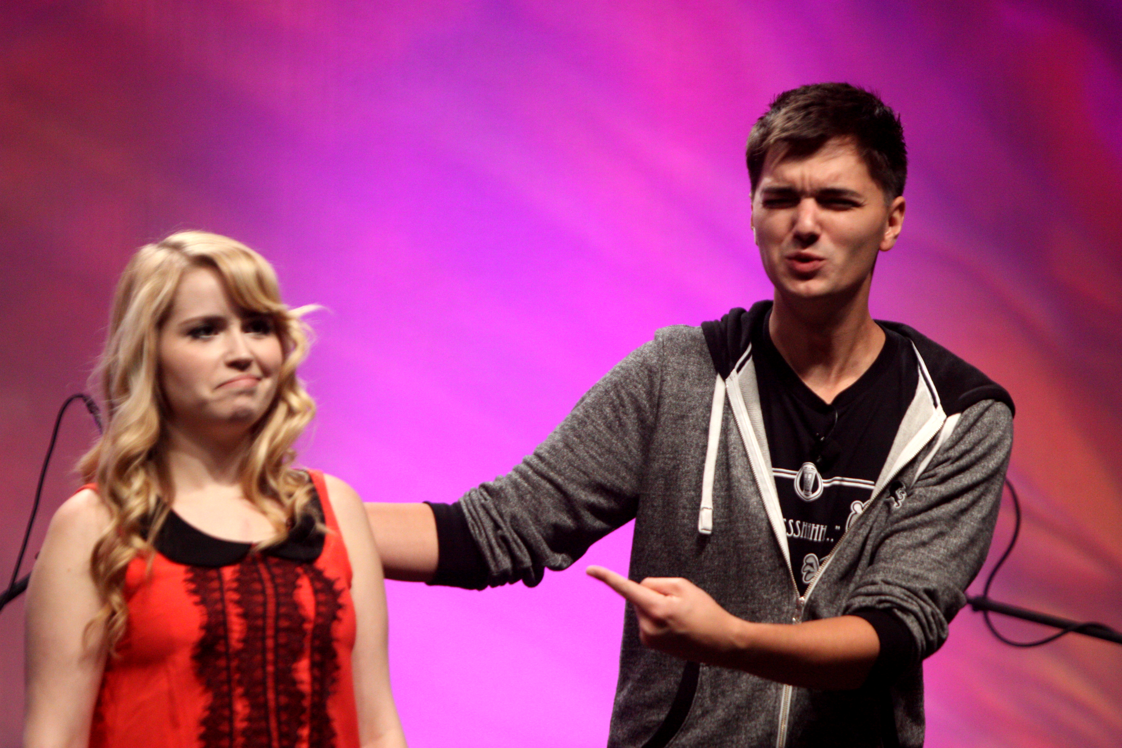 Lee Newton & Elliott Morgan speaking at VidCon 2012 at the Anaheim Convention Center in Anaheim, California.